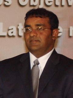 Bharrat Jagdeo, president of Guyana.